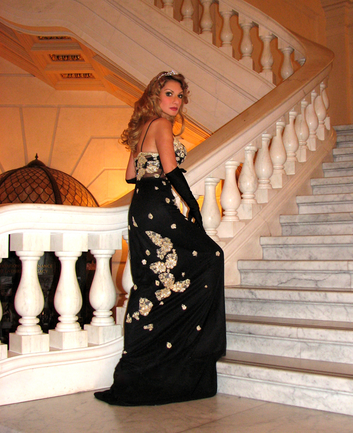 Tina Louise Thomas at the Harrisburg Capitol Rotunda